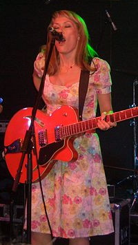 Cerys Matthews: This file has been extracted from another file: Cerys Matthews.jpg Cerys Matthews: The Band